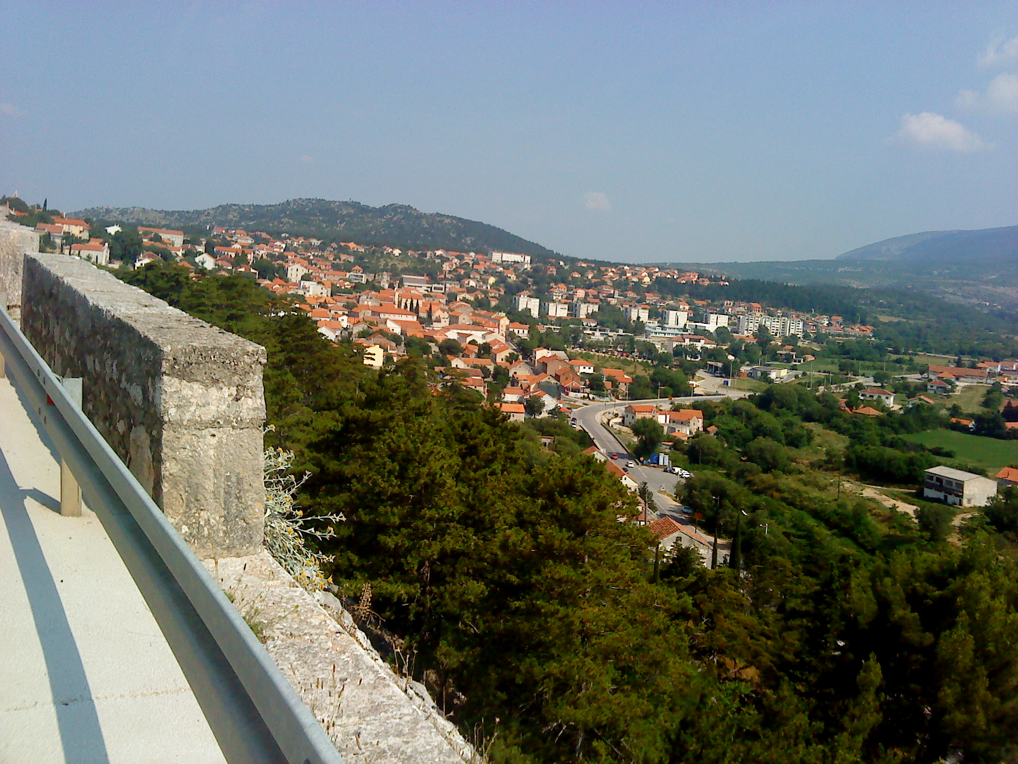 Drniš, a city in Croatia